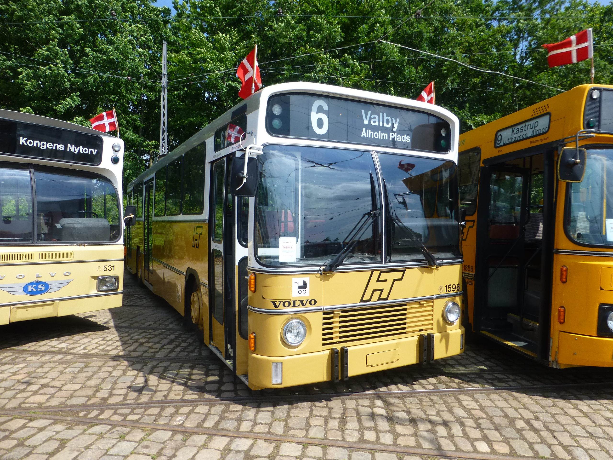 Old bus from Copenhagen HT 1596 at the celebrating of 100 years of motor buses in Copenhagen on Sporvejsmuseet Skjoldenæsholm in Denmark.